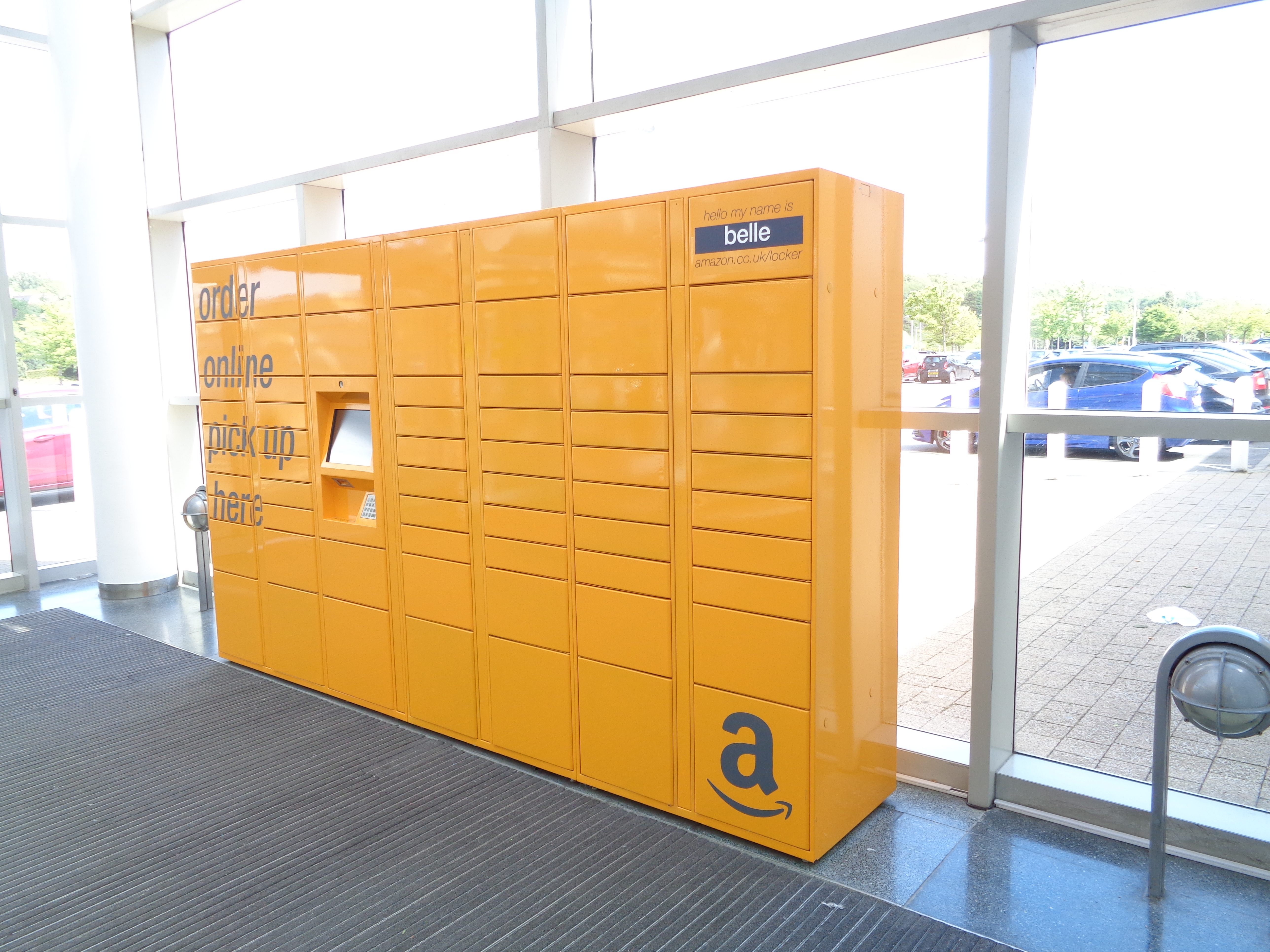 Amazon collection point, White Rose Centre, Leeds, West Yorkshire. Taken on the afternoon of Sunday the 7th of June 2015.